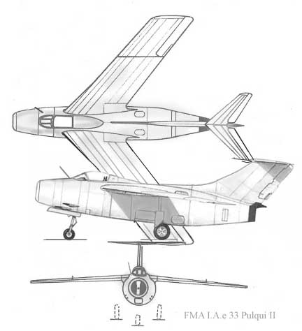 Three-view drawing of the FMA IAe 33 Pulqui II, an Argentinian jet fighter.